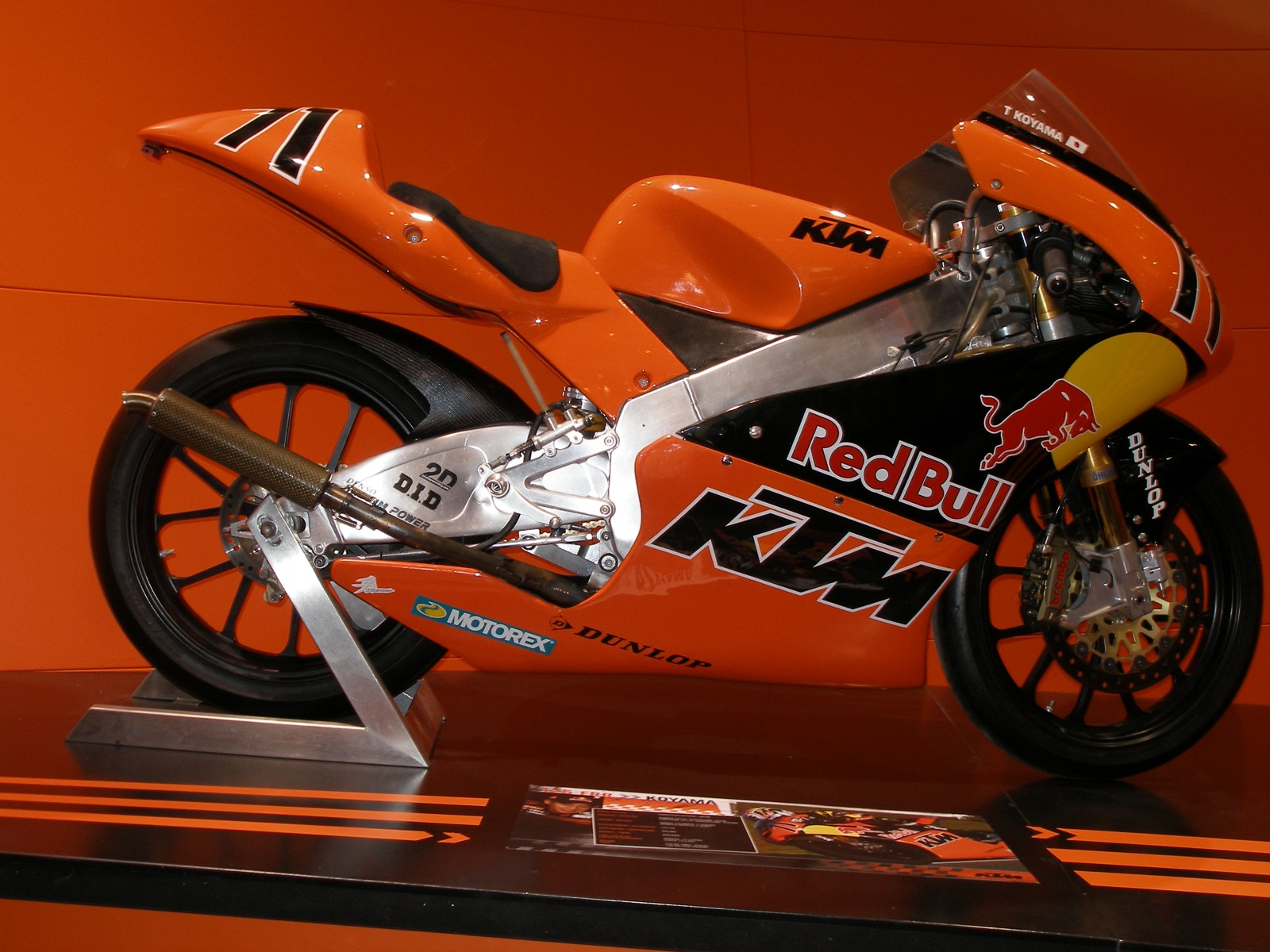 KTM racing motorcycle @ EICMA 2007